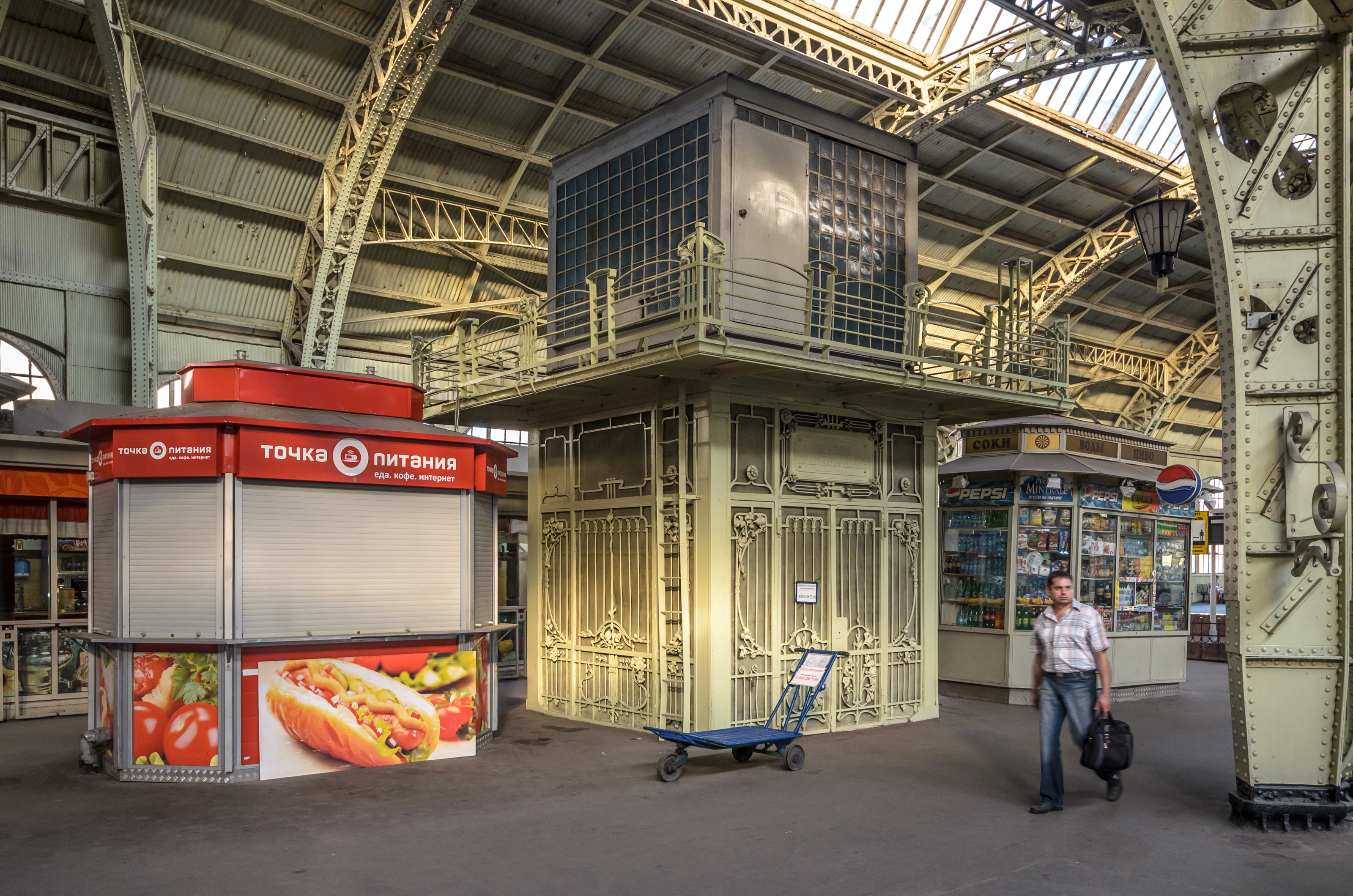 Vitebsky Rail Terminal in Saint Petersburg, Cargo Elevator